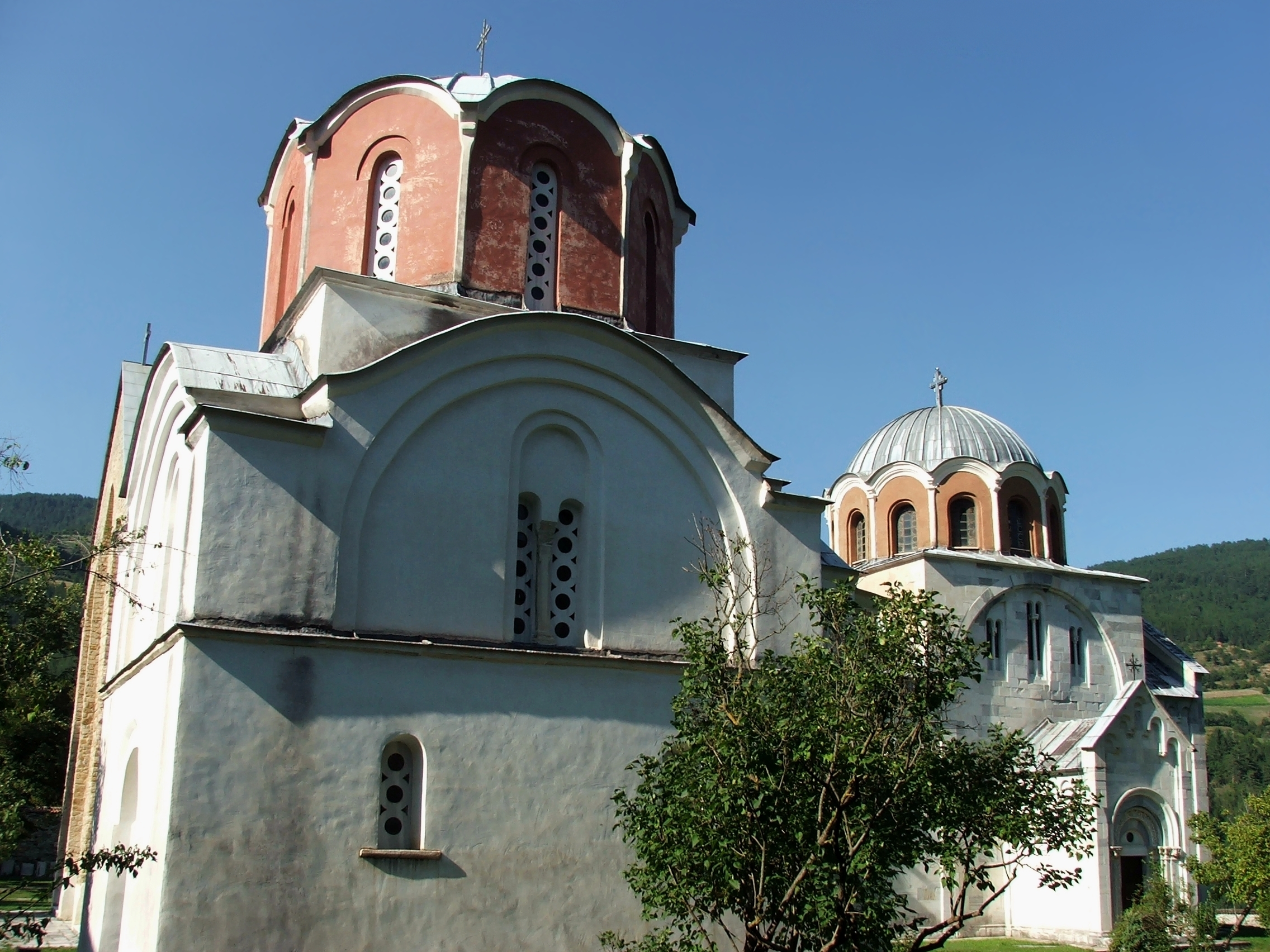 Studenica Monastery - a view of the two Churches Српски (ћирилица): Манастир Студеница - поглед на две Цркве